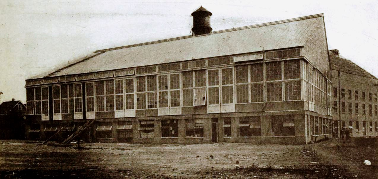 Rear view of the Selznick studio in Fort Lee, New Jersey, on page 61 of the August 14, 1920 Exhibitors Herald.